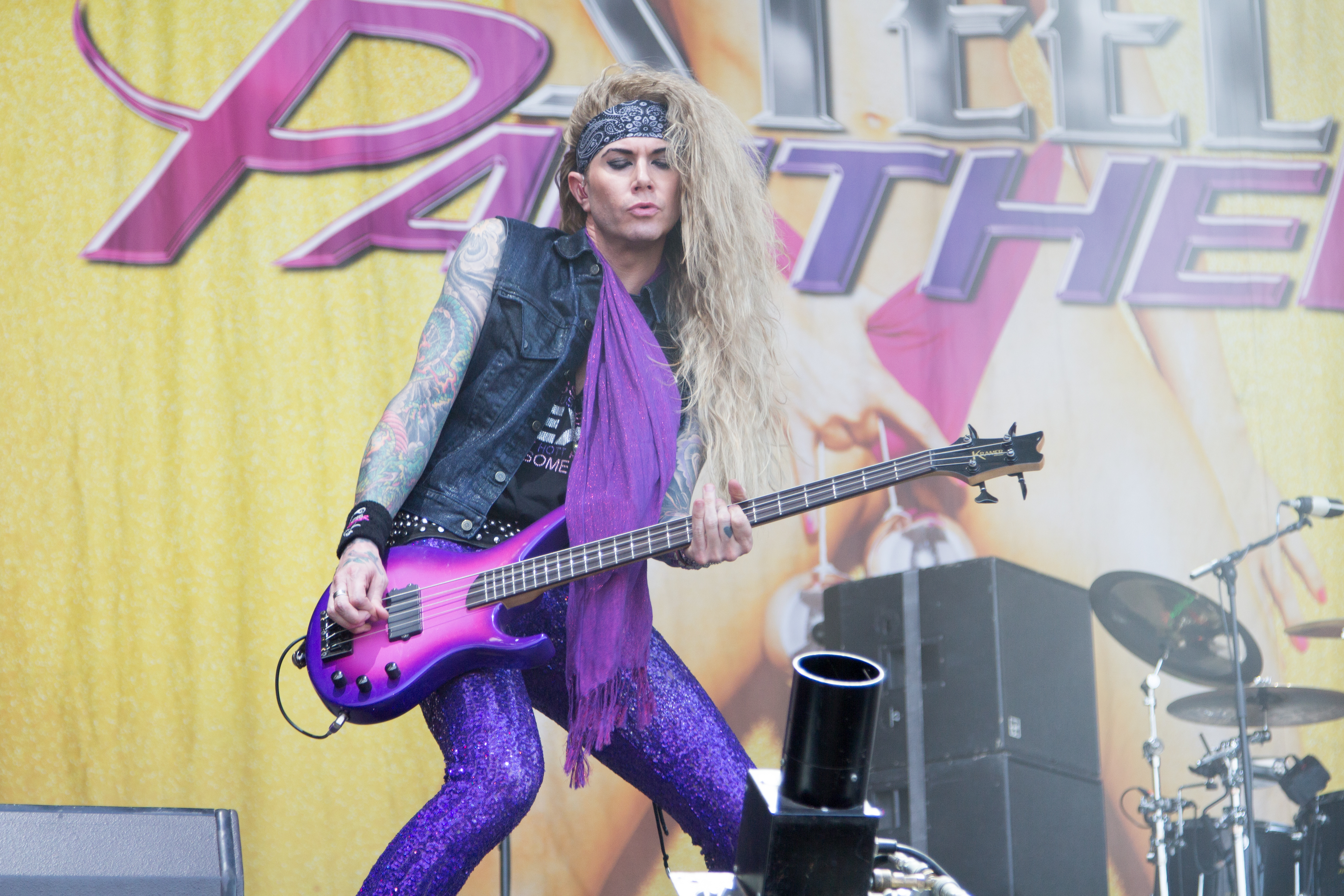 Lexxi Foxx from Steel Panther at Nova Rock 2014